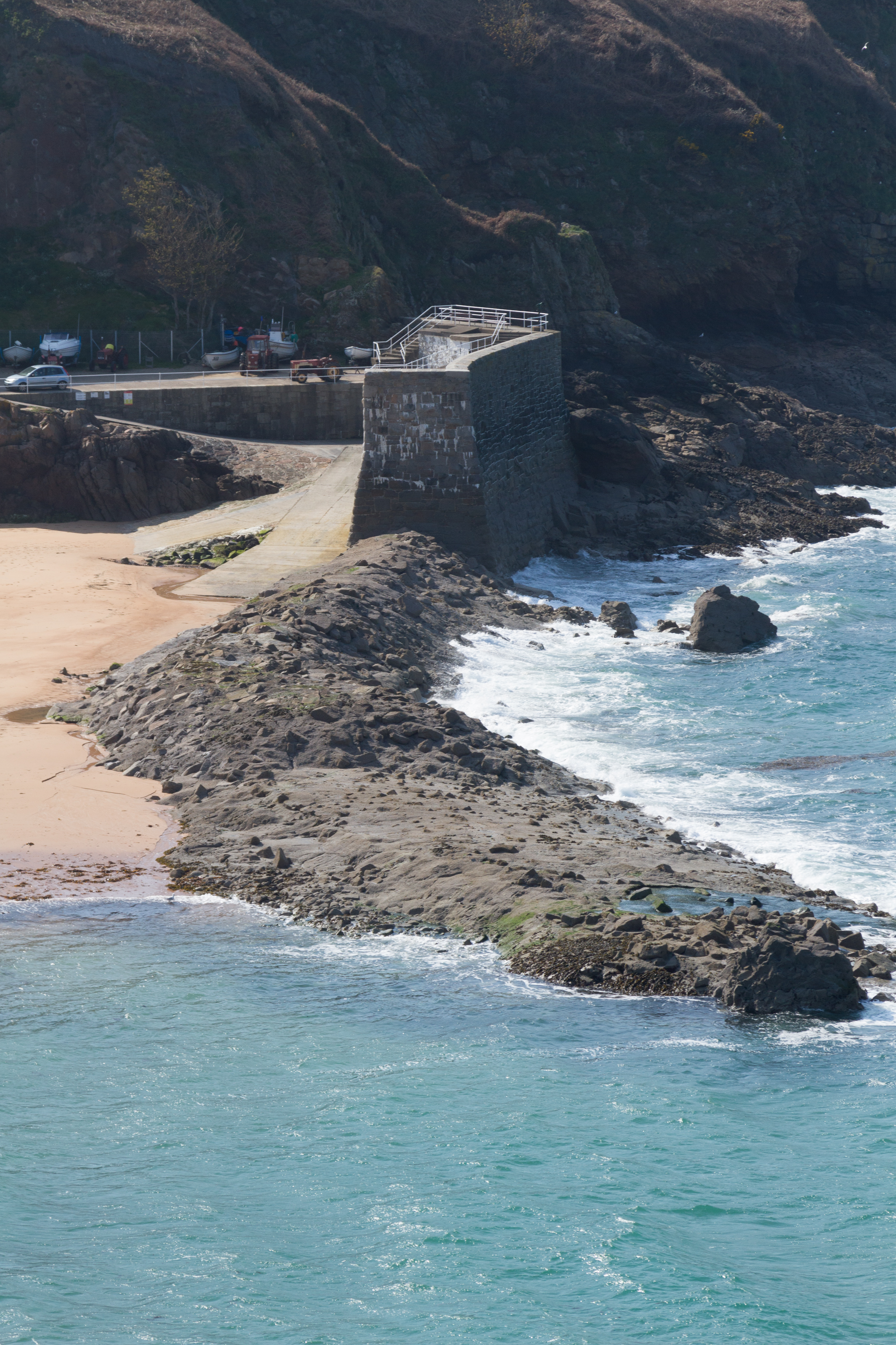 Grève de Lecq pier.